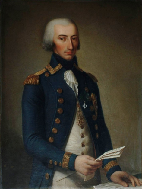 Portrait of Prince Giuseppe, Count of Asti (1766-1802) Caption from Catalogo Generale dei Beni Culturali Personaggi: Placido Benedetto di Savoia. Abbigliamento: pantaloni bianchi; gilet bianco chiuso da bottoni dorati; giacca blu con bottoni dorati e galloni dorati sulle spalle. Decorazioni: croce dei SS Maurizio e Lazzaro sul petto. Il dipinto conservato al Canopoleno è sicuramente una replica con leggere varianti nella posizione delle mani e negli oggetti che il Conte tiene in mano (dei libri nel dipinto nella Biblioteca, dei fogli in quello del Canopoleno) attribuibile quindi alla stessa mano che dipinse i ritratti del Conte e del fratello Carlo Felice che si trovano nella Biblioteca. Universitaria di Sassari. In base a dei documenti conservati presso la Biblioteca Universitaria si può quindi circoscrivere la donazione dei dipinti (e quindi probabilmente anche di quelli conservati al Canopoleno) fra l'ottobre del 1799 e l'ottobre del 1802, periodo entro il quale si collocano l'insediamento sia di Placido Benedetto nel ruolo di Governatore del Capo del Logudoro sia di Carlo Felice in quello di vicerè, come pure la morte dello stesso Conte di Moriana, avvenuta a Sassari il 28 ottobre 1802. Le opere di esecuzione accurata e con un accentuato gusto per la resa dei particolari, mostrano una stretta relazione con la ritrattistica tipica del tempo.